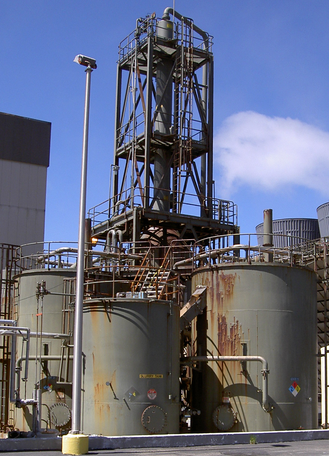 a small Stretford reactor for producing sulfur from H2S, located at the Sonoma Calpine 3 geothermal power plant at The Geysers, Sonoma County, California, USA. Photographed looking west from outside the plant's administrative building.